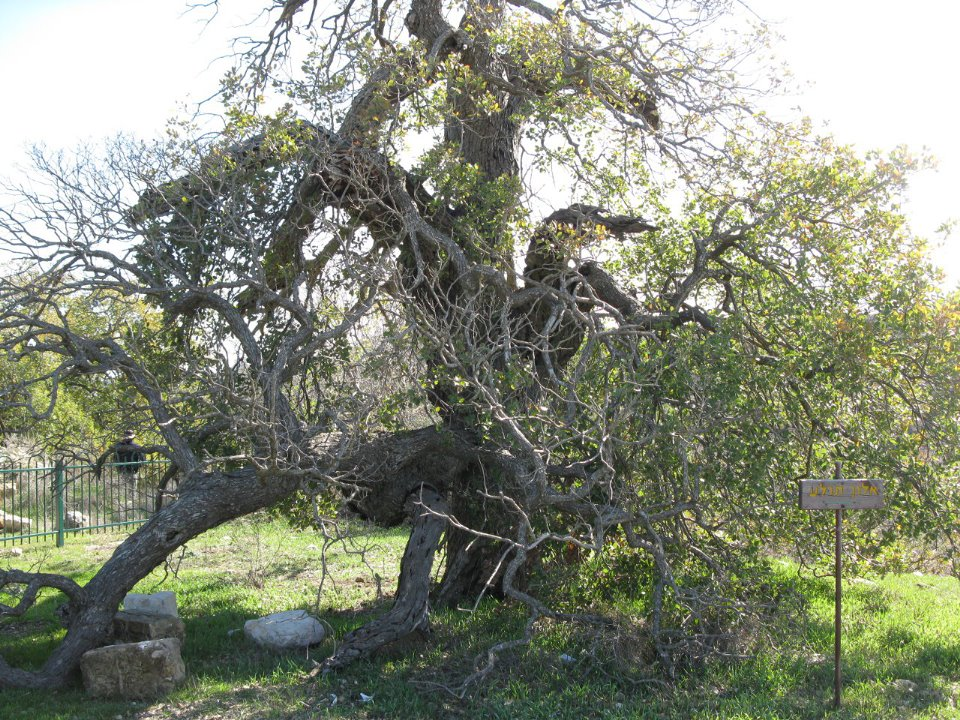 Plants of Israel